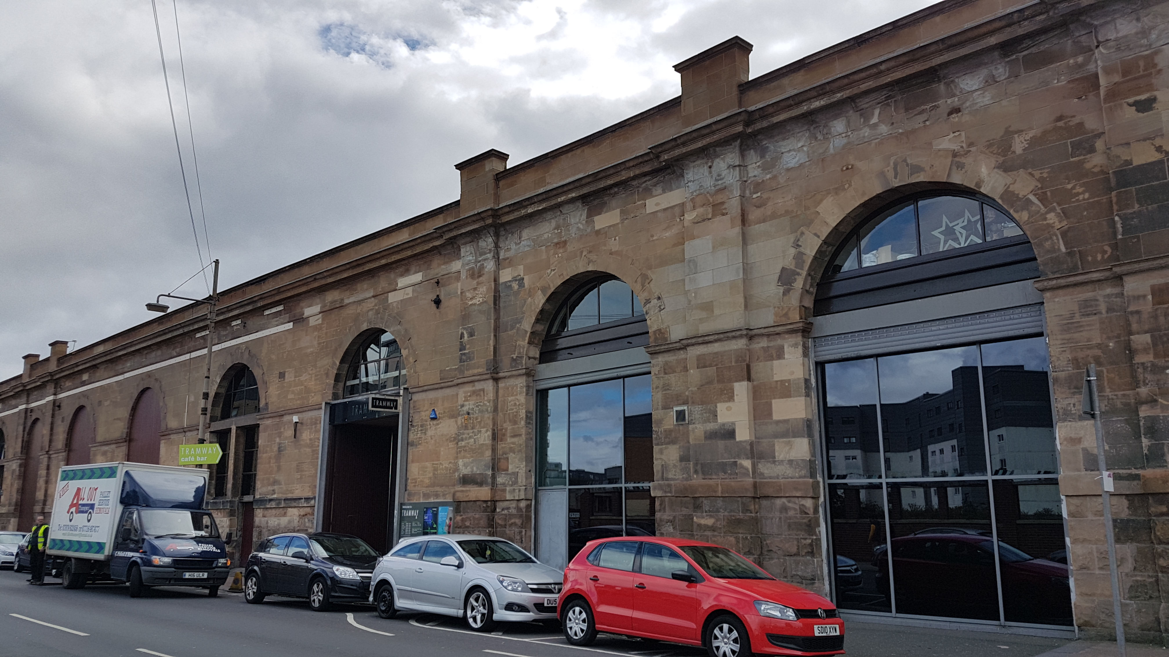 25 Albert Drive, Tramway Theatre Wikidata has entry Q17812611 with data related to this item.